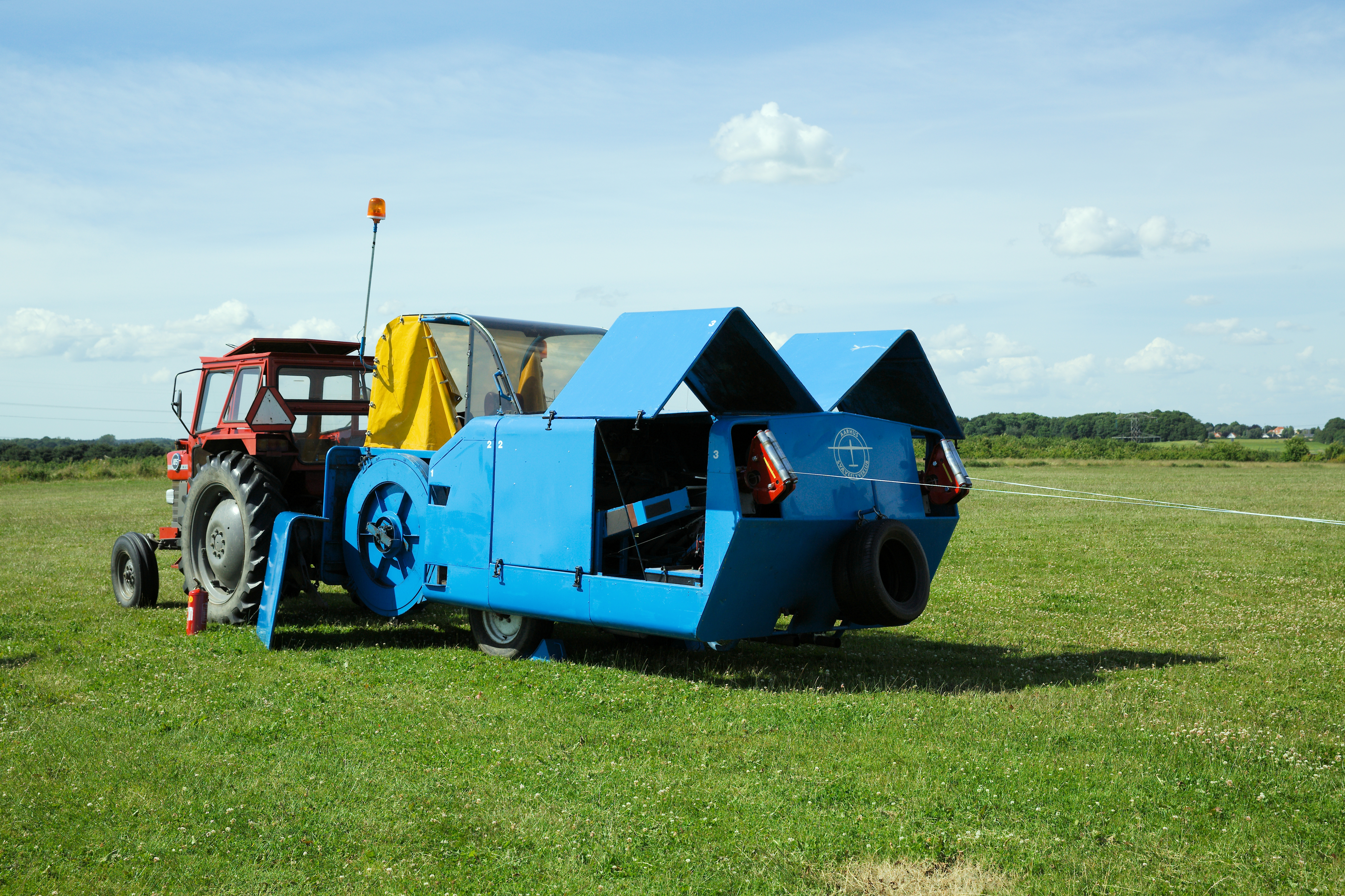 Glider winch at True Glider airfield near Aarhus